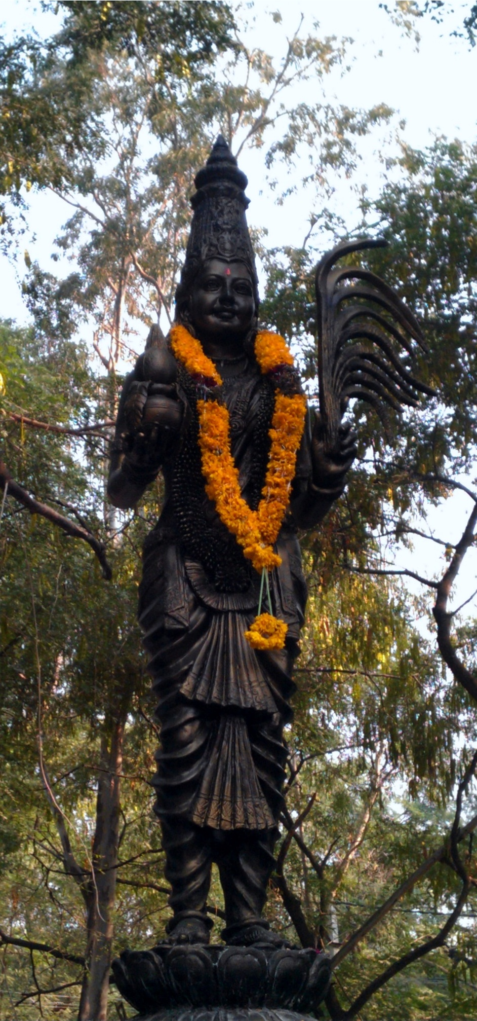 This is the statue of Telugu Talli in the premises of the District Collectorate of Guntur.